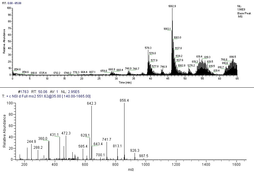 Example of a full MS spectrum and an MS/MS spectrum of a peptide.